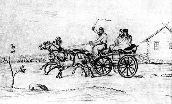 Troika leaving a village. Pencil drawing.